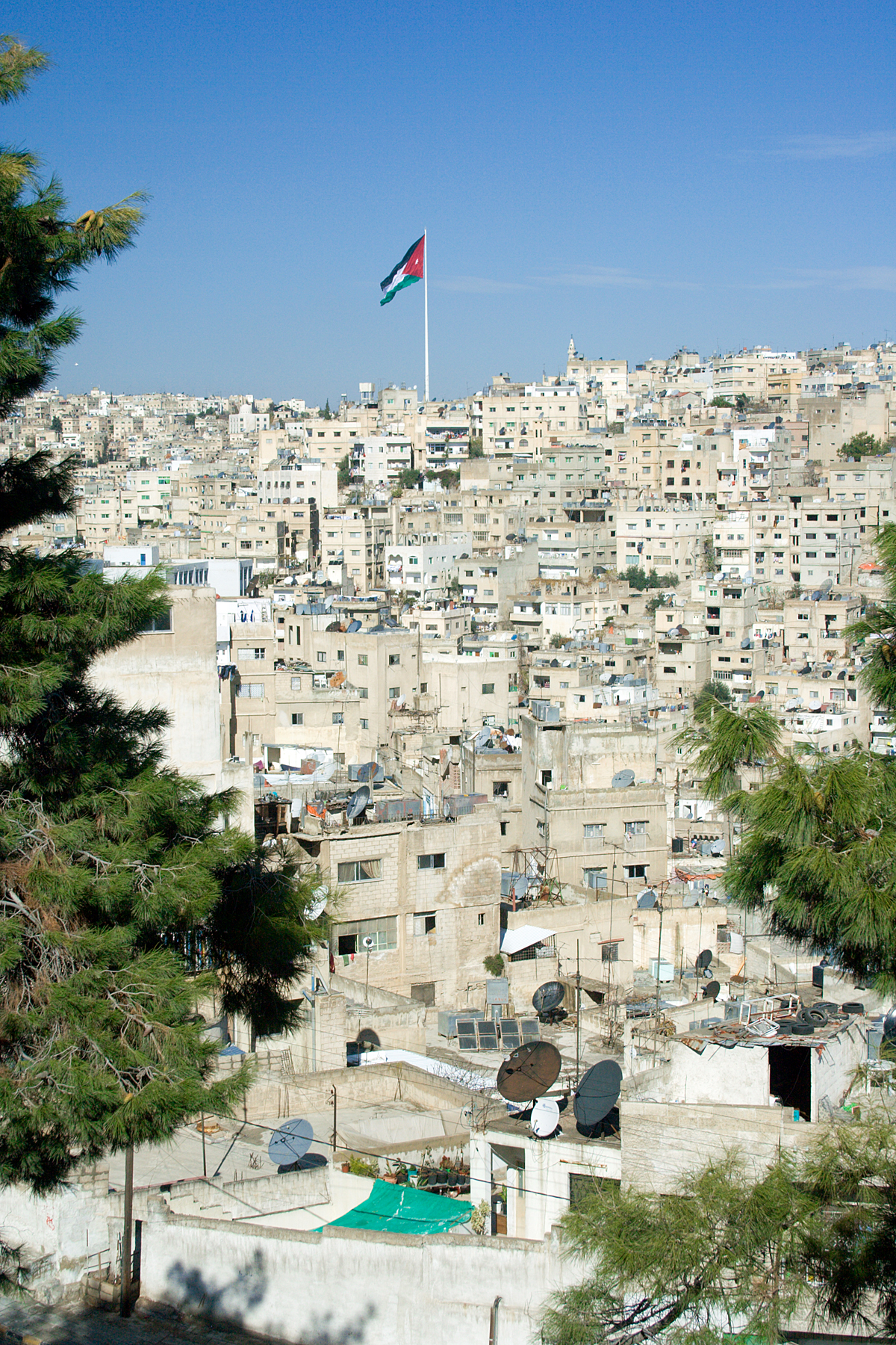 A view of Amman, Jordan from the Citadel atop Jabal al-Qal'a